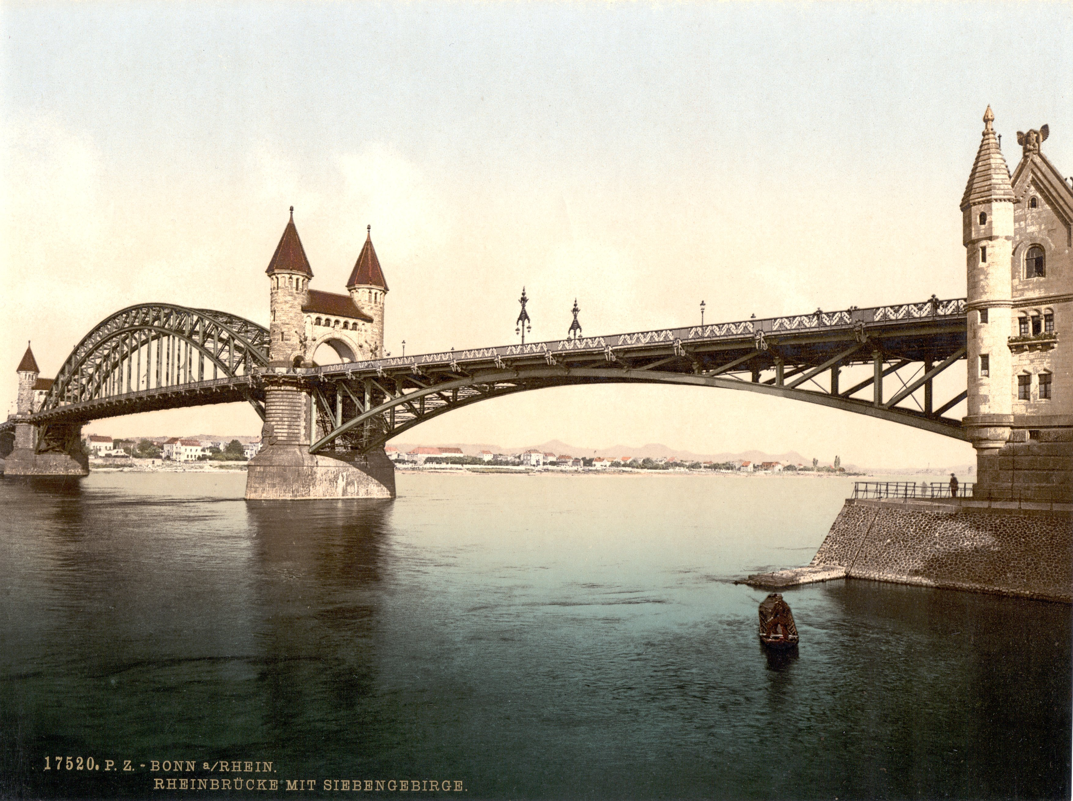 Old bridge in Bonn (about 1900)